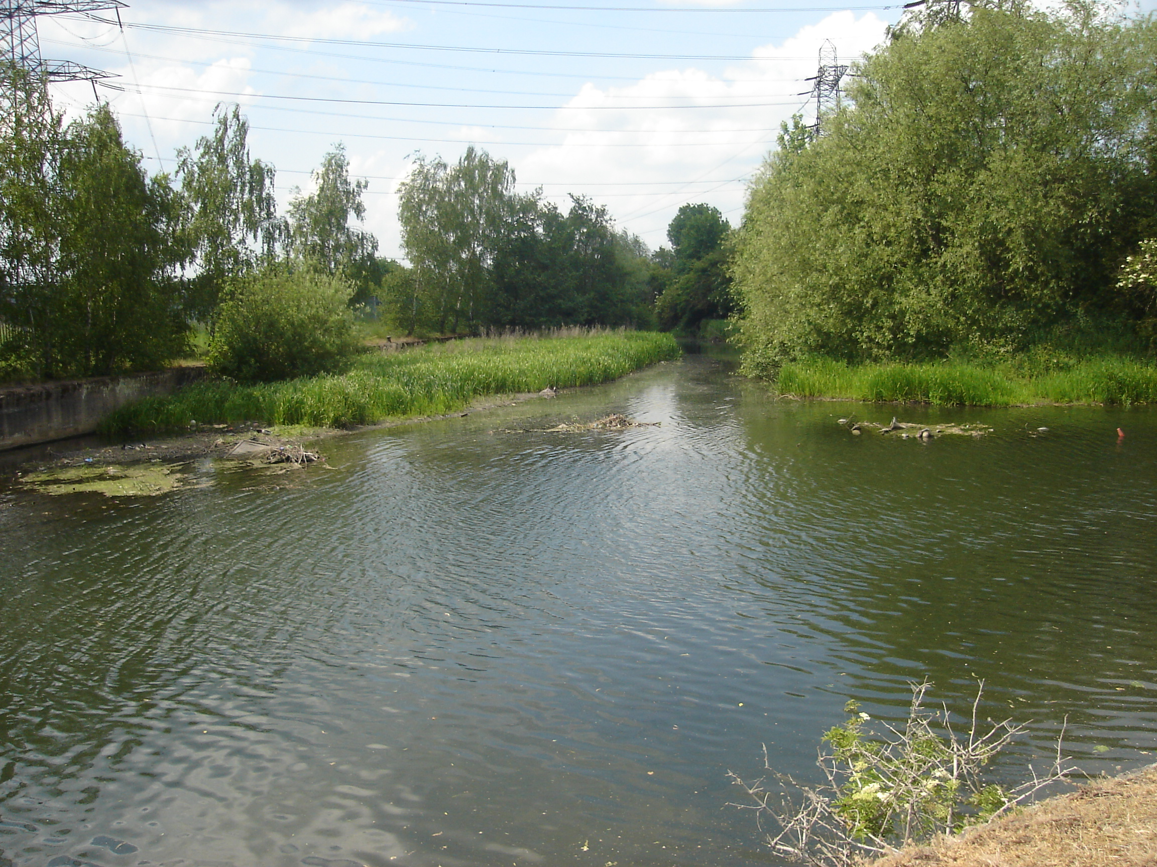 Picture of the confluence of Turkey Brook with the Small River Lea below Enfield Lock